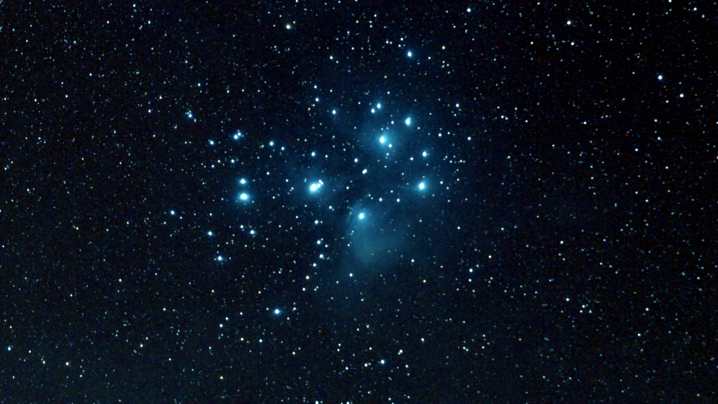 Pleiades cluster